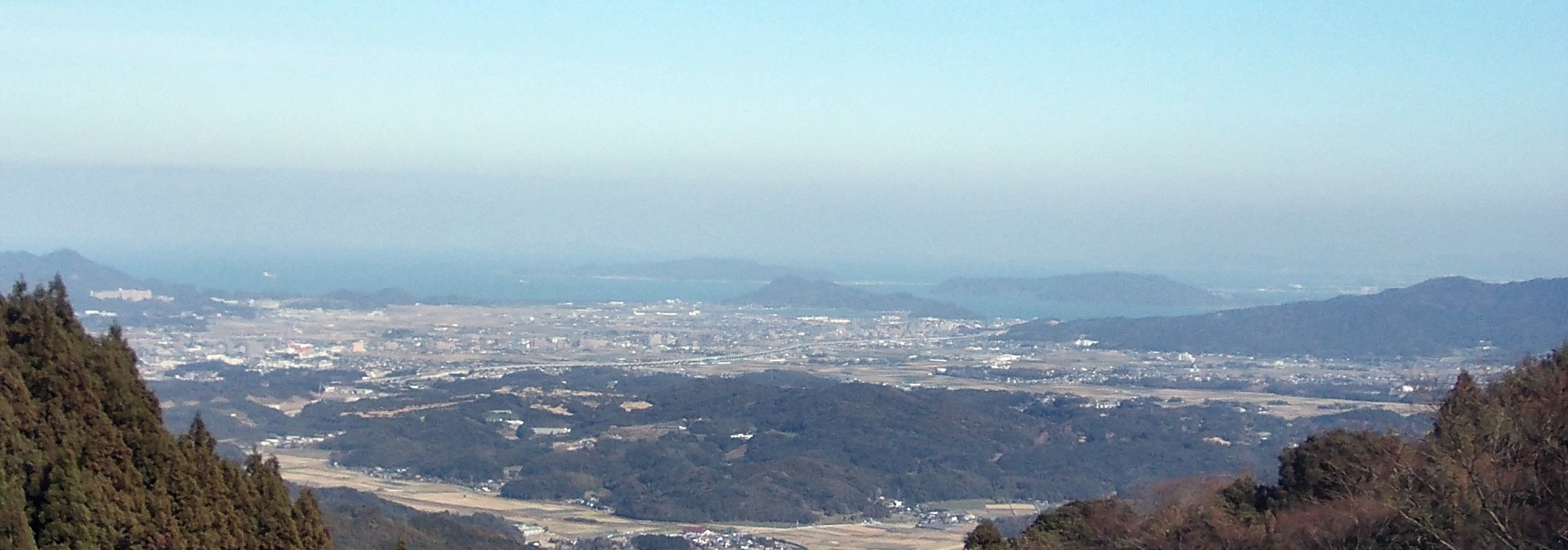 A view of the entire Itoshima City from Shiraito Falls.